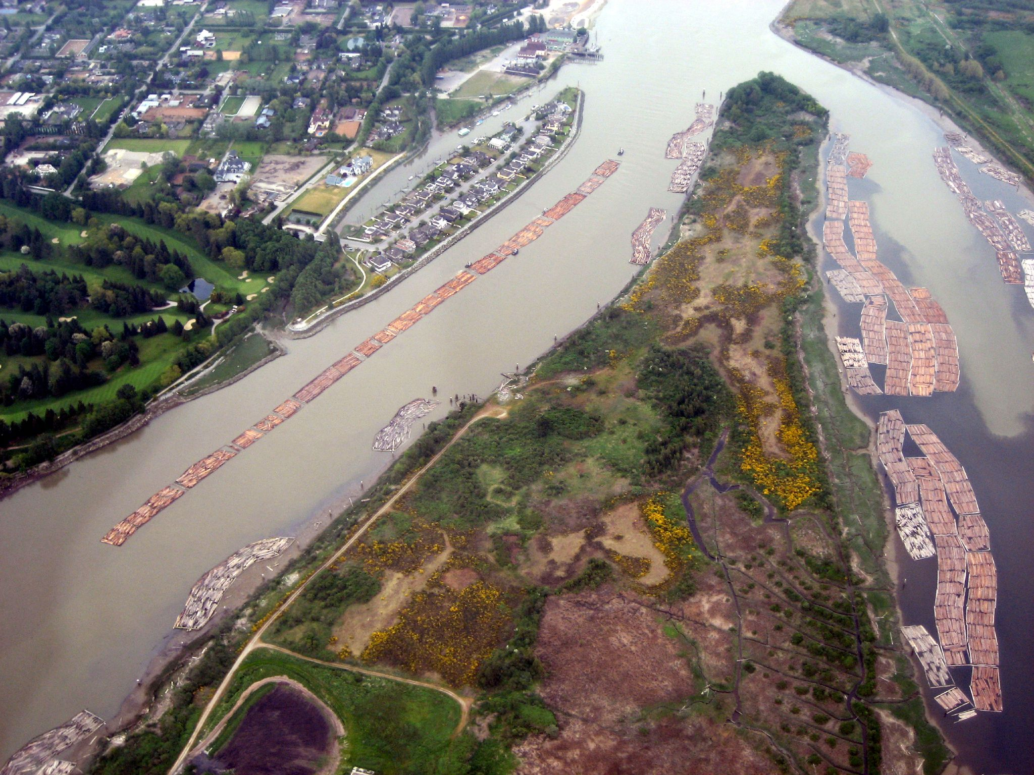 Tugboats towing logs on the Fraser River, Vancouver British Columbia.